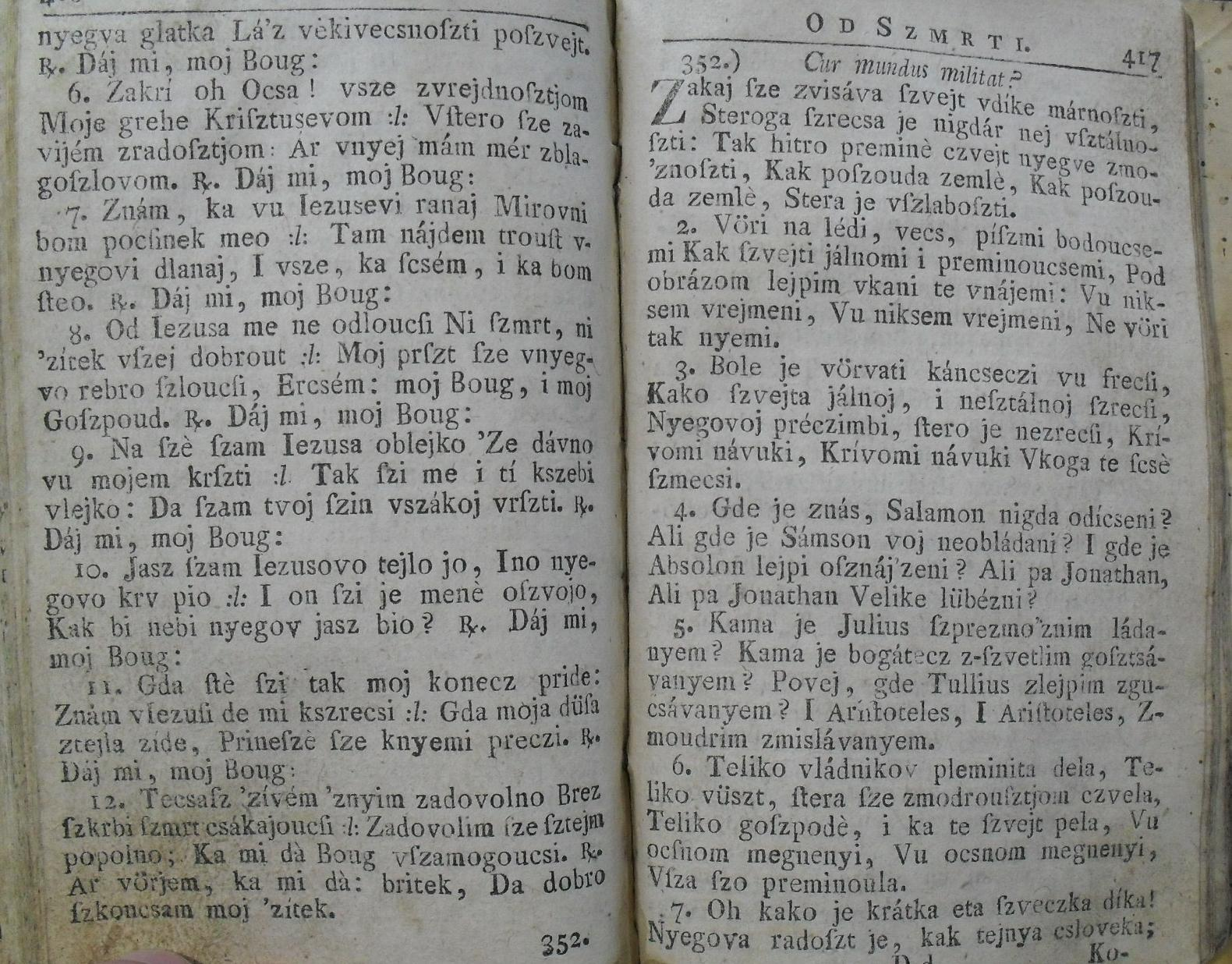 The 352. burial hymn from Mihály Bakos's Nouvi Gráduvál (New Gradual), translated from Latin in Prekmurian (prekmurščina)